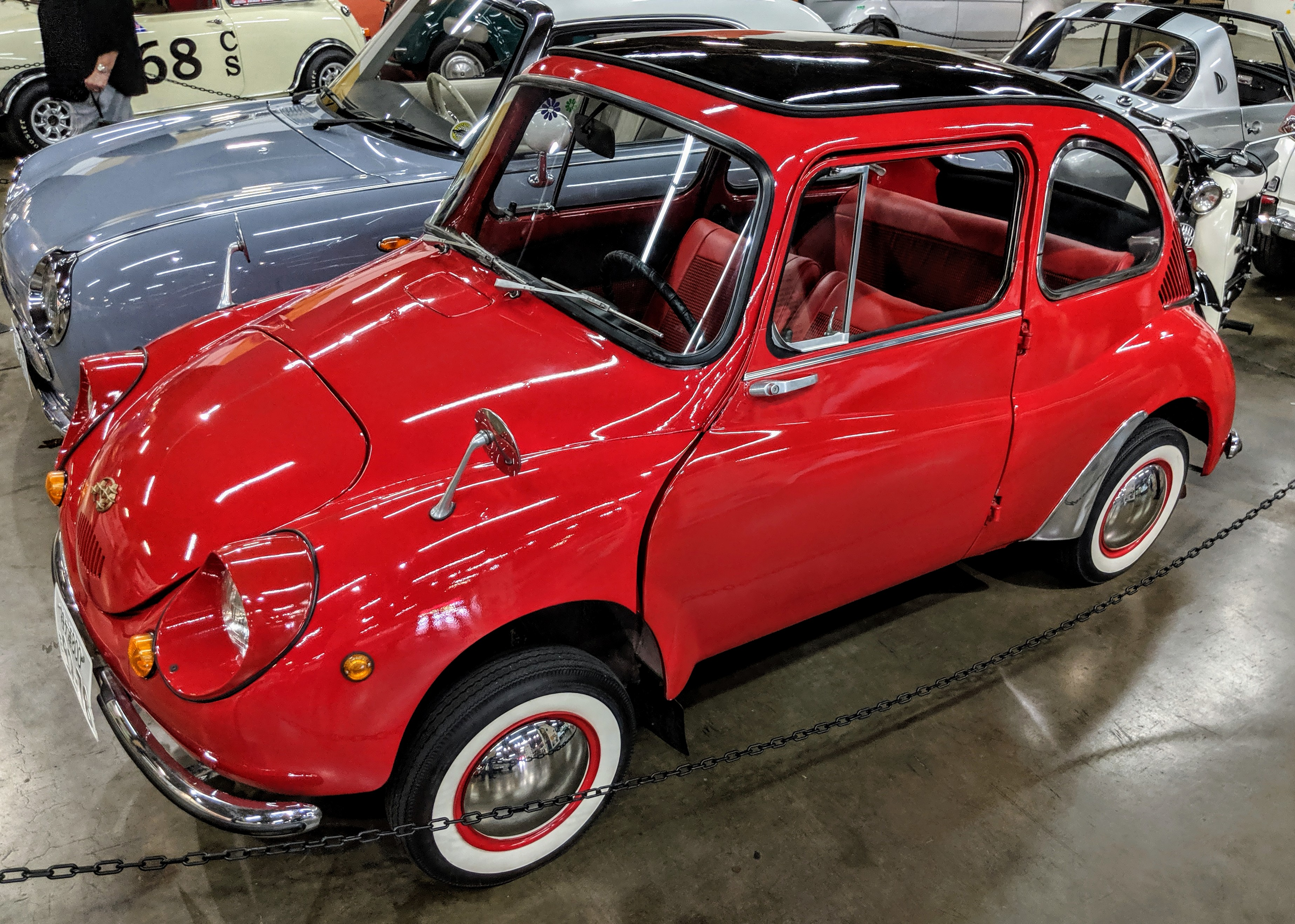 A 1970 Subaru 360 on display at the California Automobile Museum in Sacramento. Photo by Jim Heaphy.